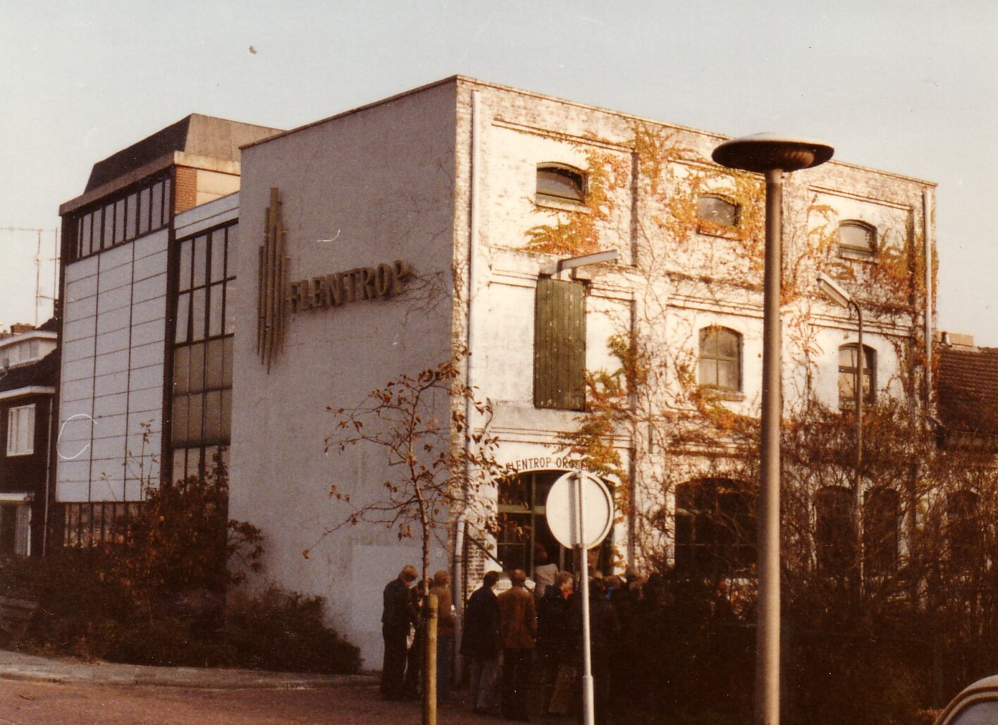 Flentrop Orgelbouw in Zaandam, The Netherlands, 1978